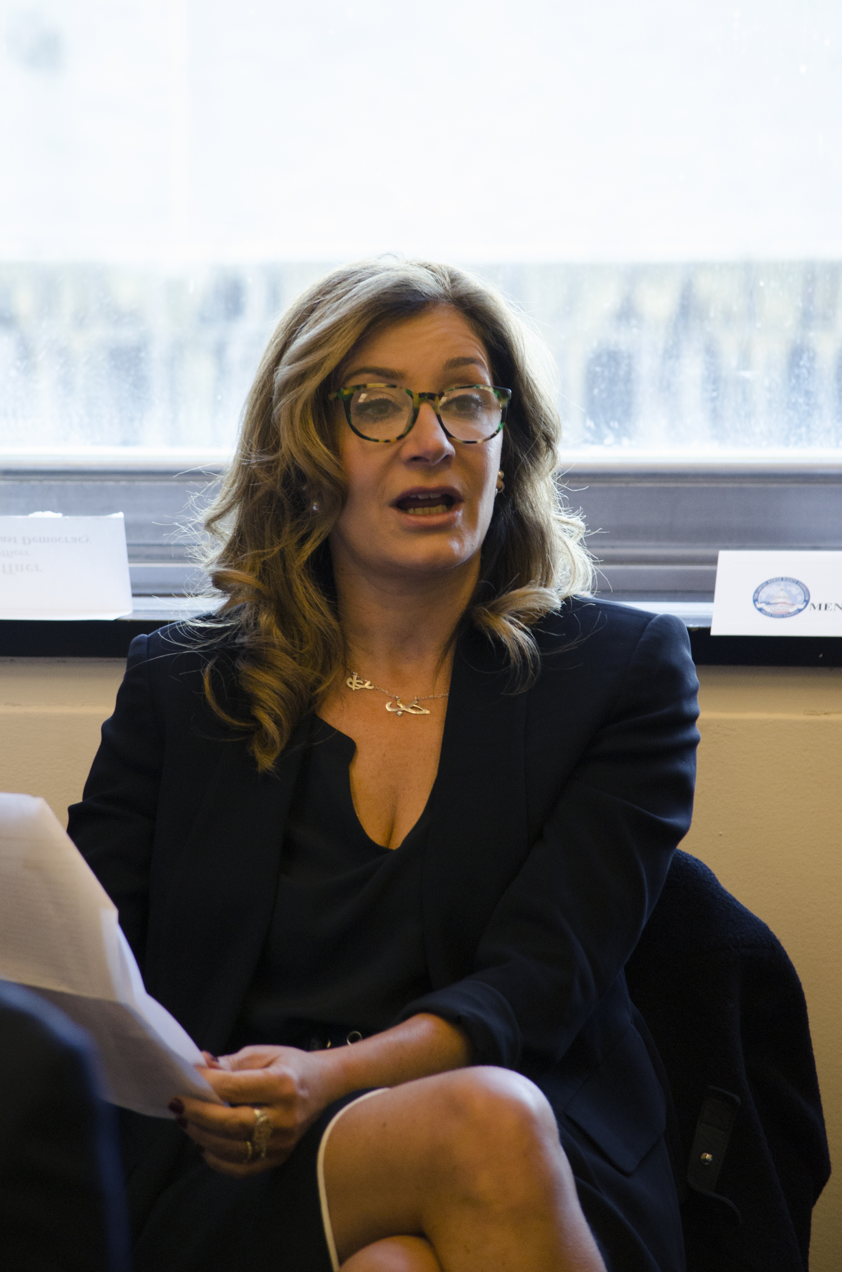 Sarah Leah Whitson, Executive Director, Middle East and North Africa Division, at Human Rights Watch, addresses the crowd during a briefing by the Tom Lantos Human Rights Commission. Panelists included: Todd Ruffner Advocacy Officer, Project on Middle East Democracy (POMED) Sarah Leah Whitson Executive Director, Middle East and North Africa Division, Human Rights Watch Raed Jarrar Advocacy Director, Middle East and North Africa, Amnesty International USA Moderated by: Kenneth Katzman Specialist in Middle Eastern Affairs, Congressional Research Service October 17, 2017 2456 Rayburn House Office Building Washington, DC Photo credit: April Brady/Project on Middle East Democracy